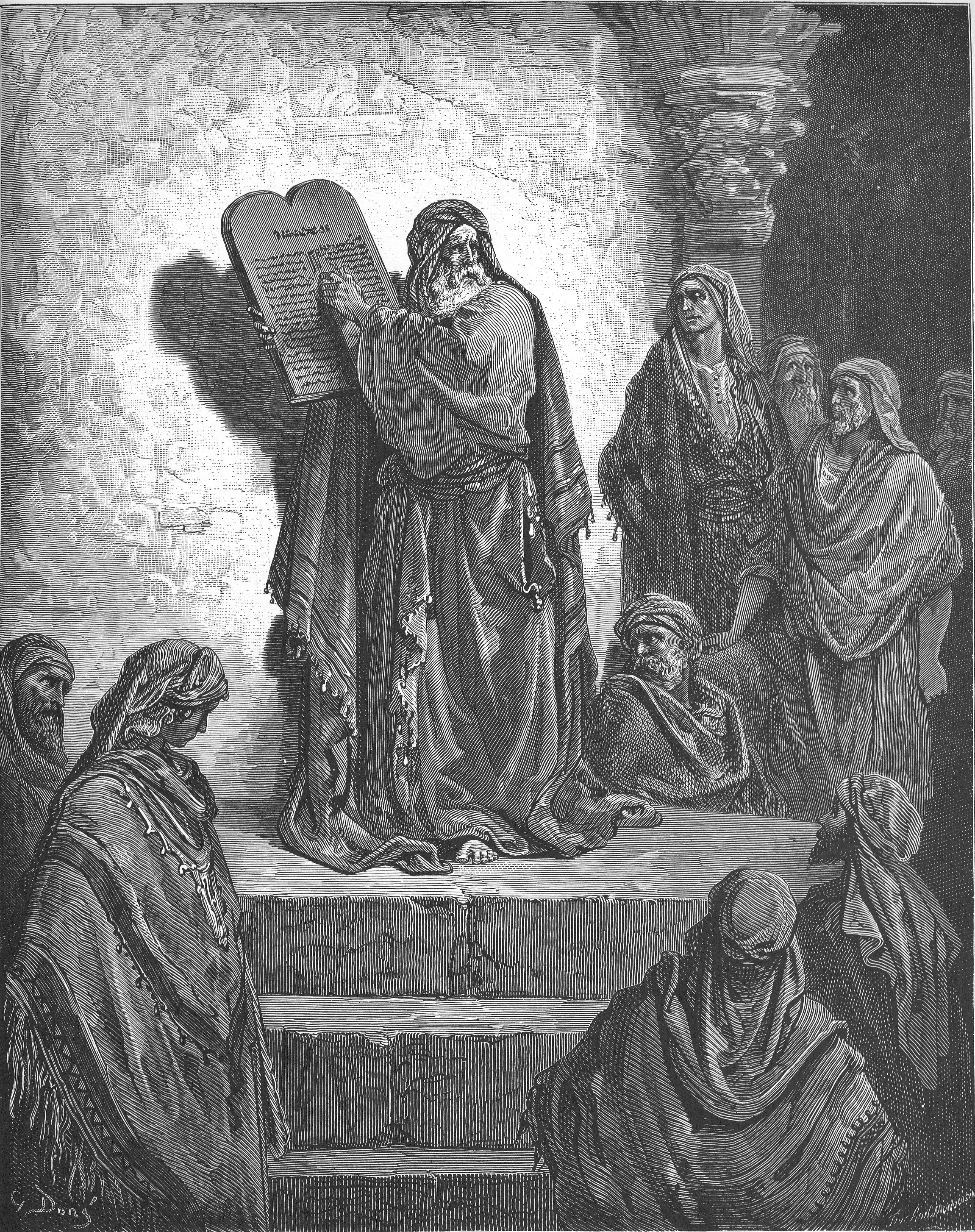 Ezra Reads the Law to the People (Neh. 8:1-12)